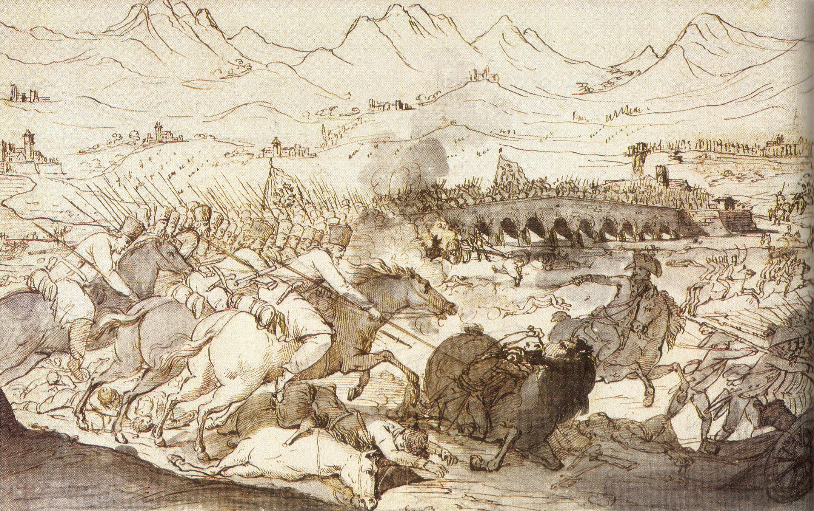 Battle of Trebbia (1799)